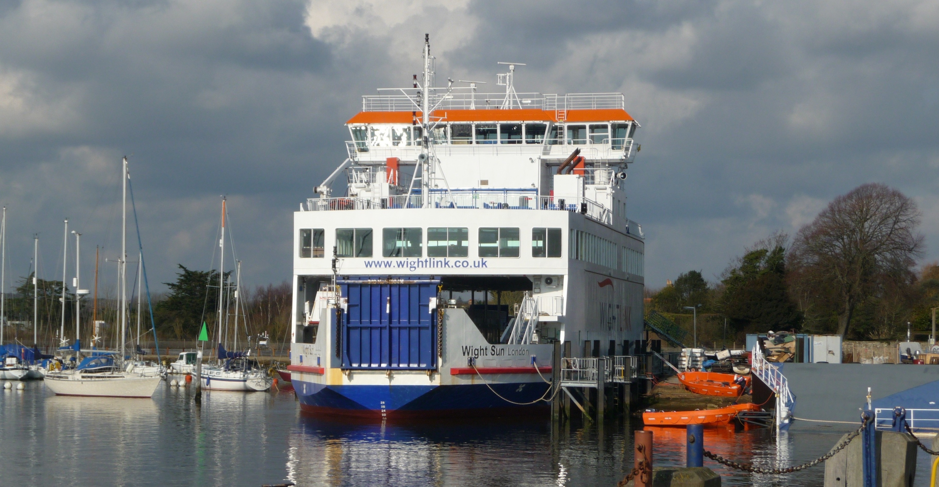 The Wightlink ferry MV Wight Sun. It started service on the Lymington to Yarmouth route with its sister ships in late 2009, and is seen here berthed at Lymington, out of service. IMO Number: 9490416 MMSI Number: 235064777 Callsign: 2BBW9 Length: 62 m Beam: 16 m